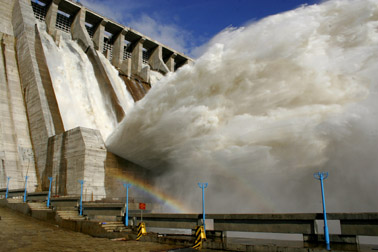 Bureya HPP